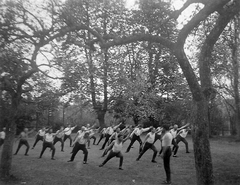 Sokol in Hlucin. Garden of Charlottenstift. 1922.